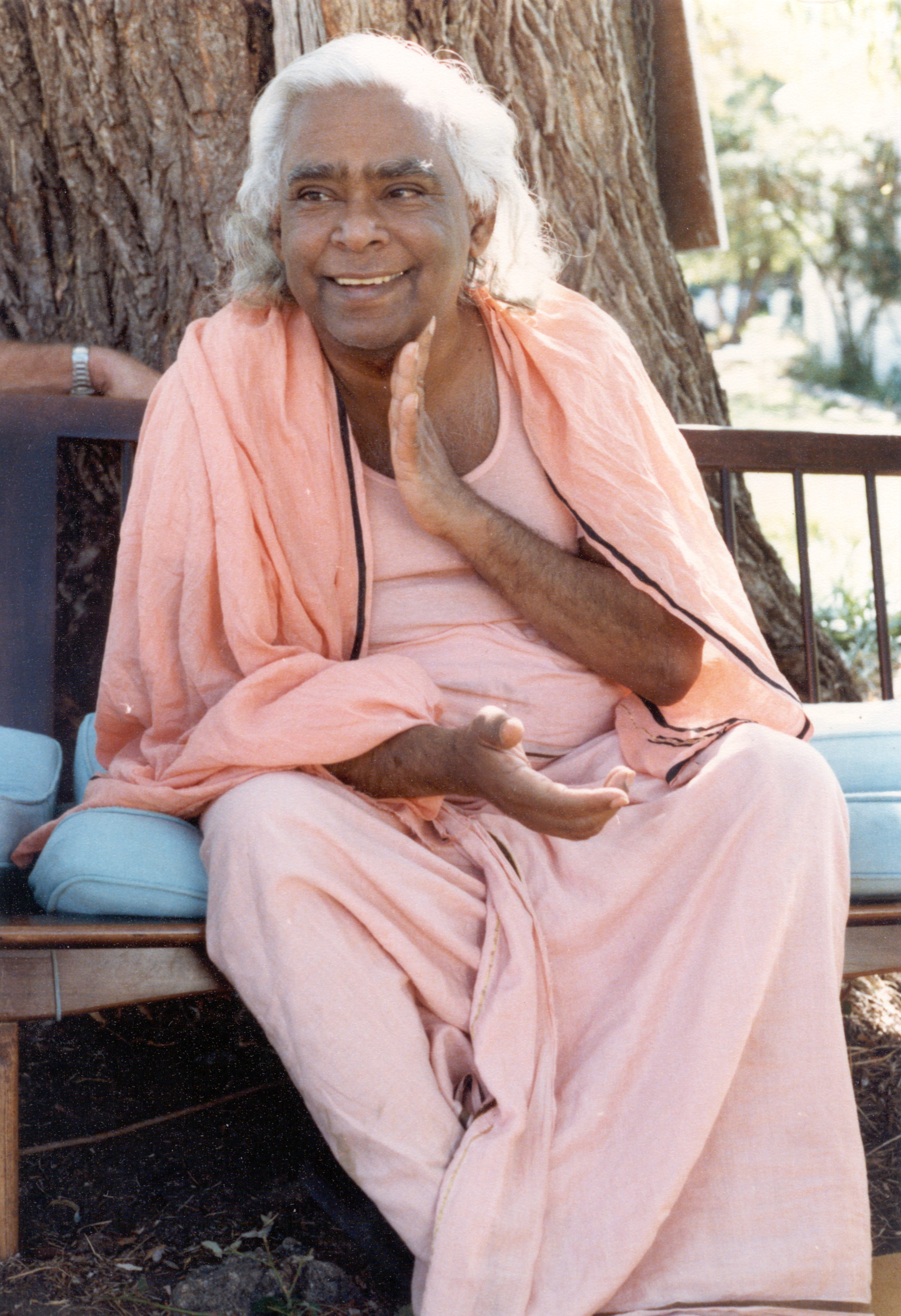 Swami Vishnudevananda